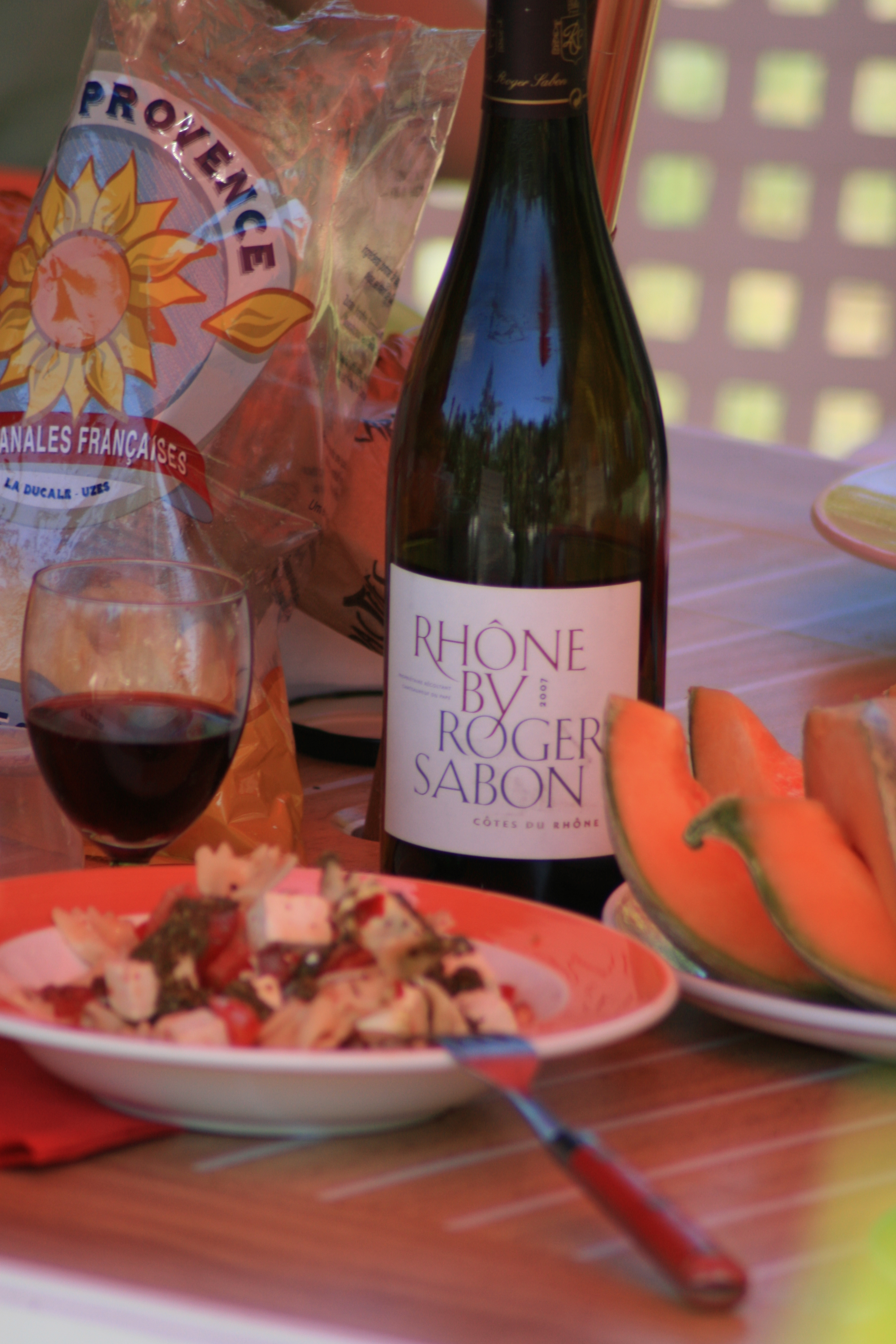 French wine from the Rhone Valley